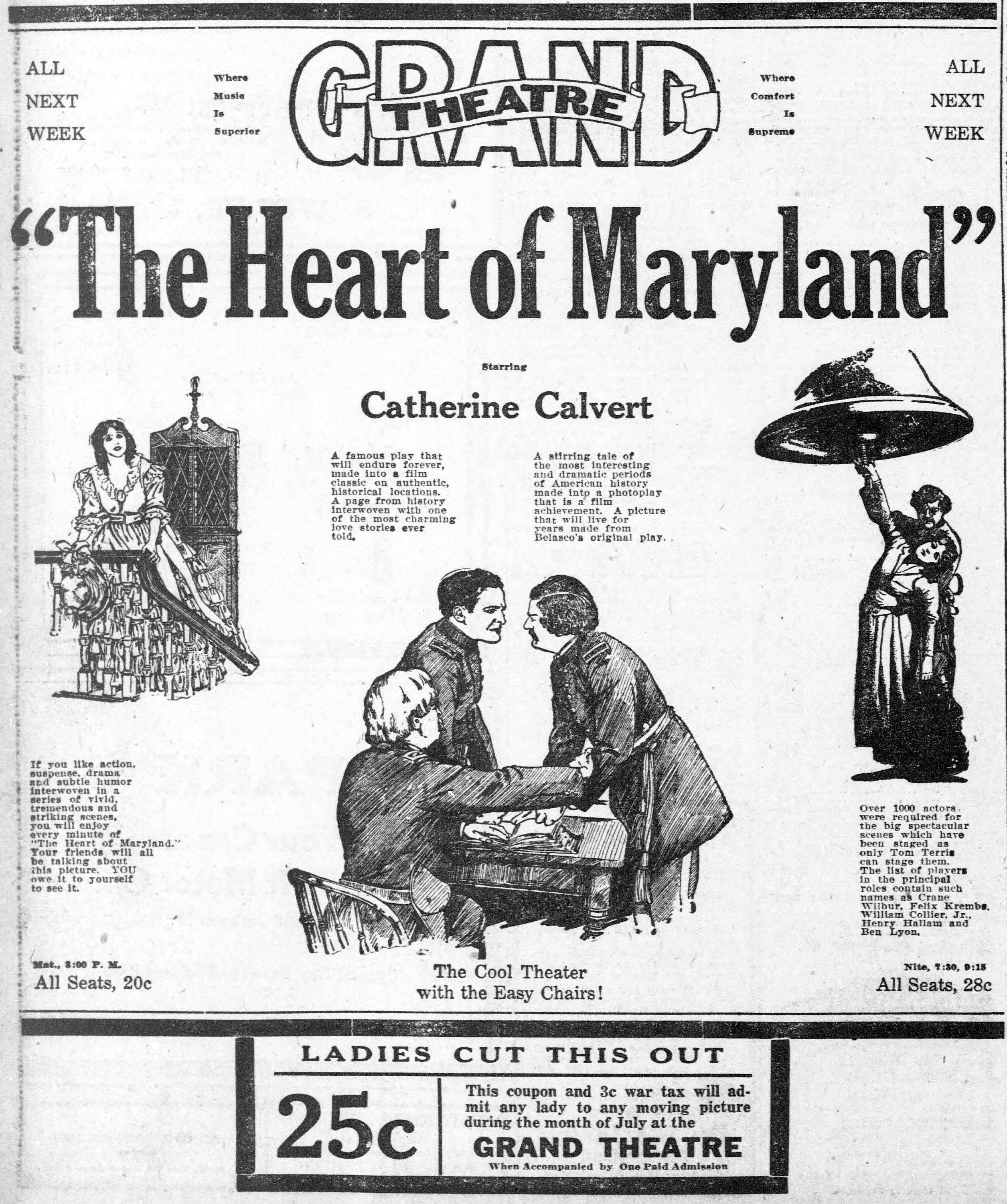 The Heart of Maryland is a lost 1921 silent film feature produced and distributed by the Vitagraph Company of America. This is a newspaper advert.